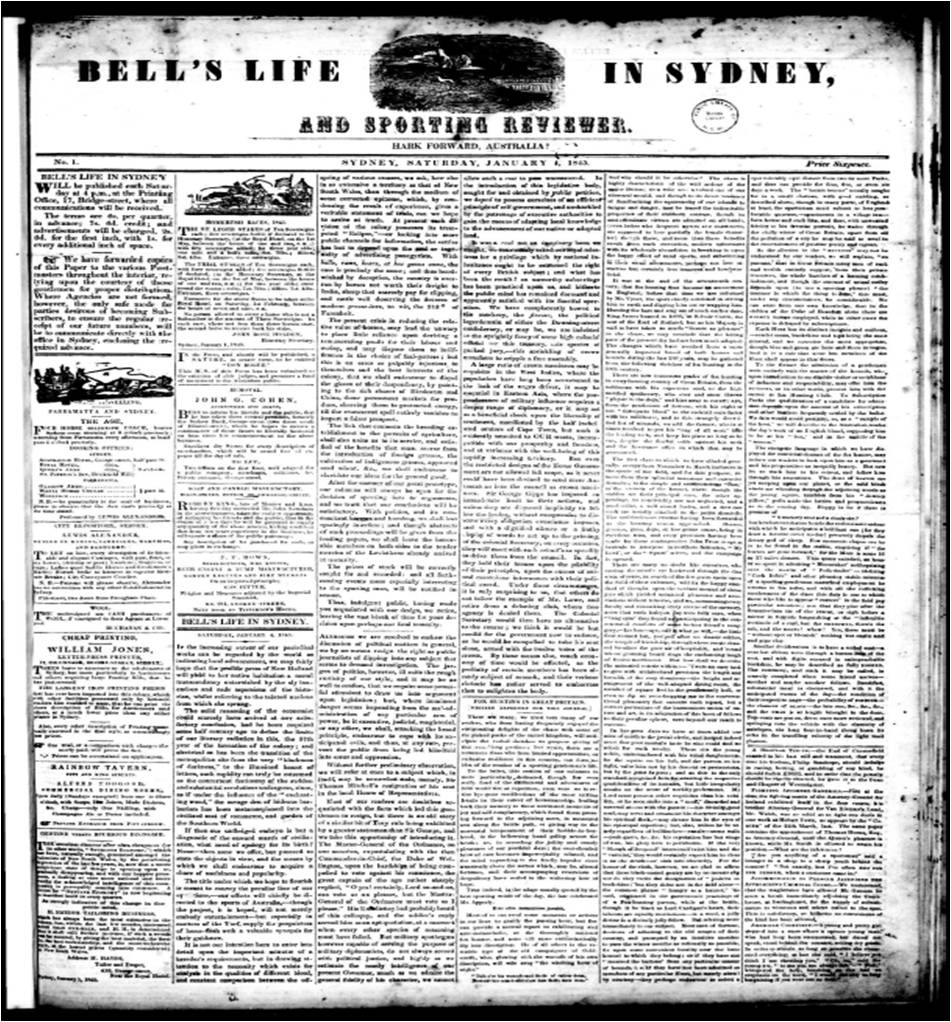 Coverpage of a historic newspaper from New South Wales, Australia.